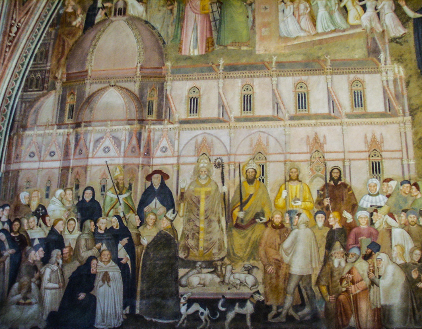 Scene with the faithful on the left, a group of about five dozen figures representing Christendom, and illustrating the religious and secular hierarchies. At the center are pope and emperor. The secular figures range from the emperor down to beggars and cripples. Behind them is the great Florentine Duomo, representing the Church.